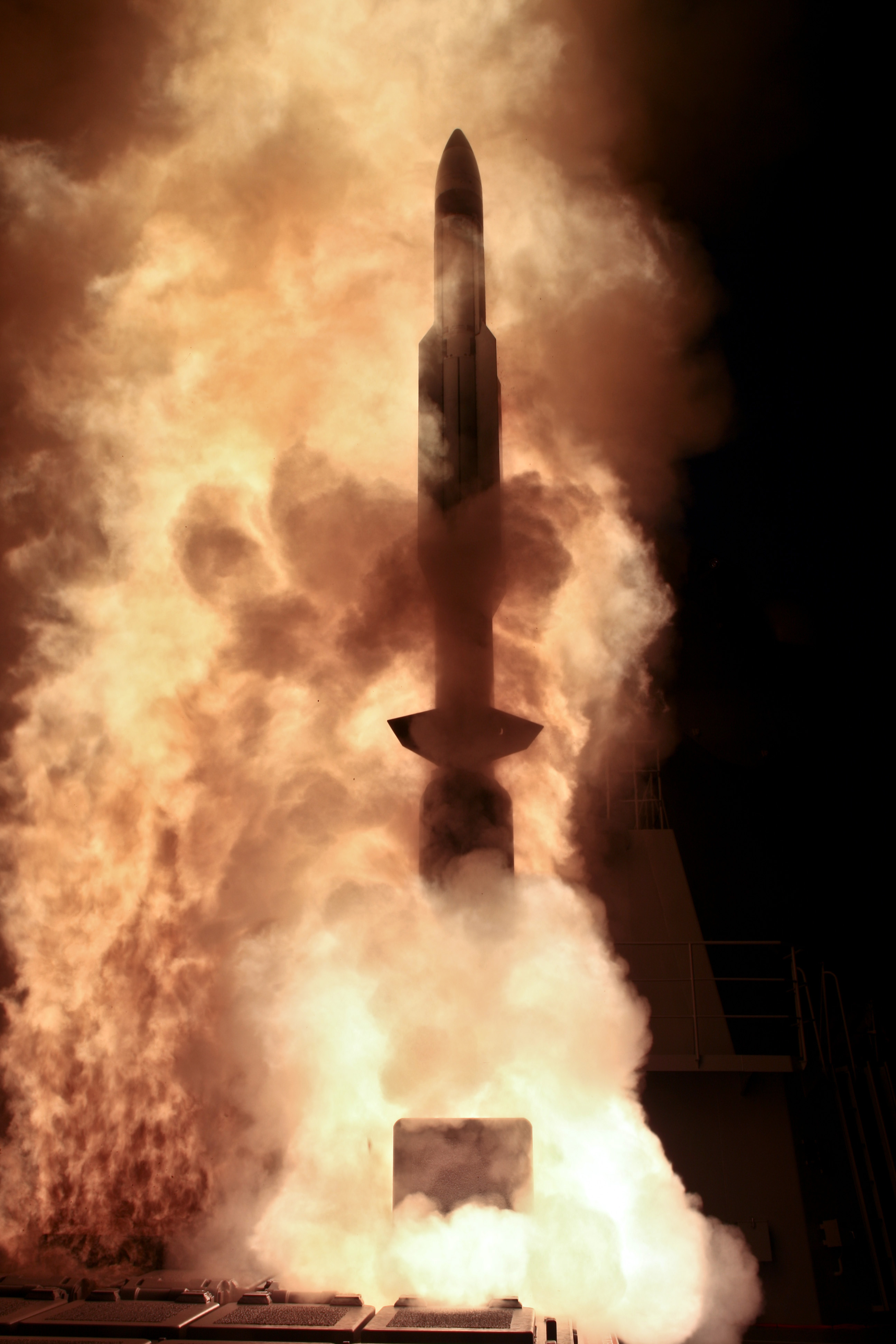 PACIFIC OCEAN The Japan Maritime Self Defense Force destroyer JDS Chokai (DDG 176) launches a Standard Missile 3 during a Missile Defense Agency joint missile defense intercept test. The SM-3 was launched to intercept a medium-range separating target that was launched from the Pacific Missile Range Facility at Barking Sands, Kauai, Hawaii. The system, ship's crew and missile performed as expected, but the SM-3 failed to intercept the target. The failure is under investigation. (Released)